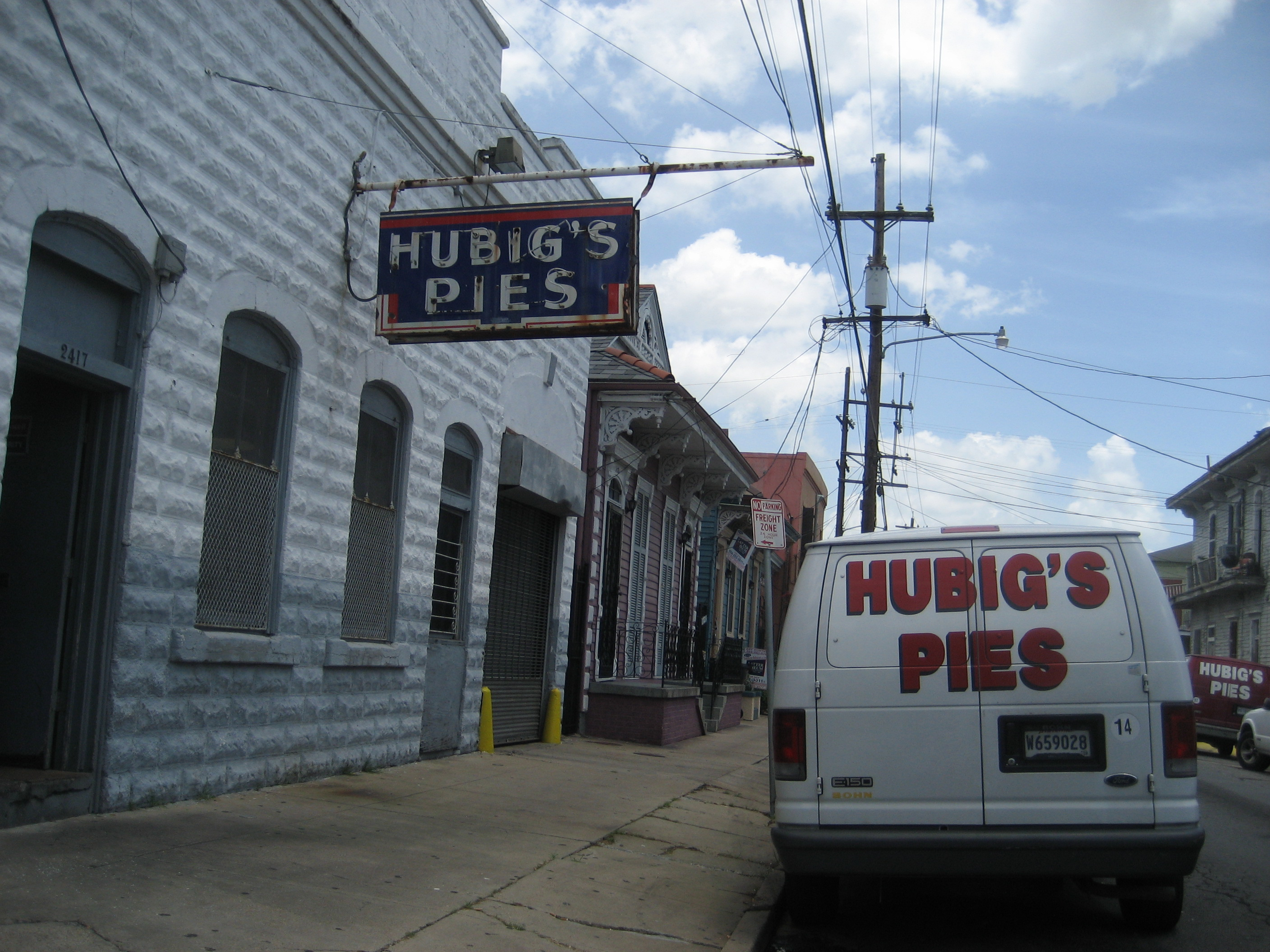 New Orleans: "Hubig's Pies" bakery in the Faubourg Marigny section with delivery van in front.